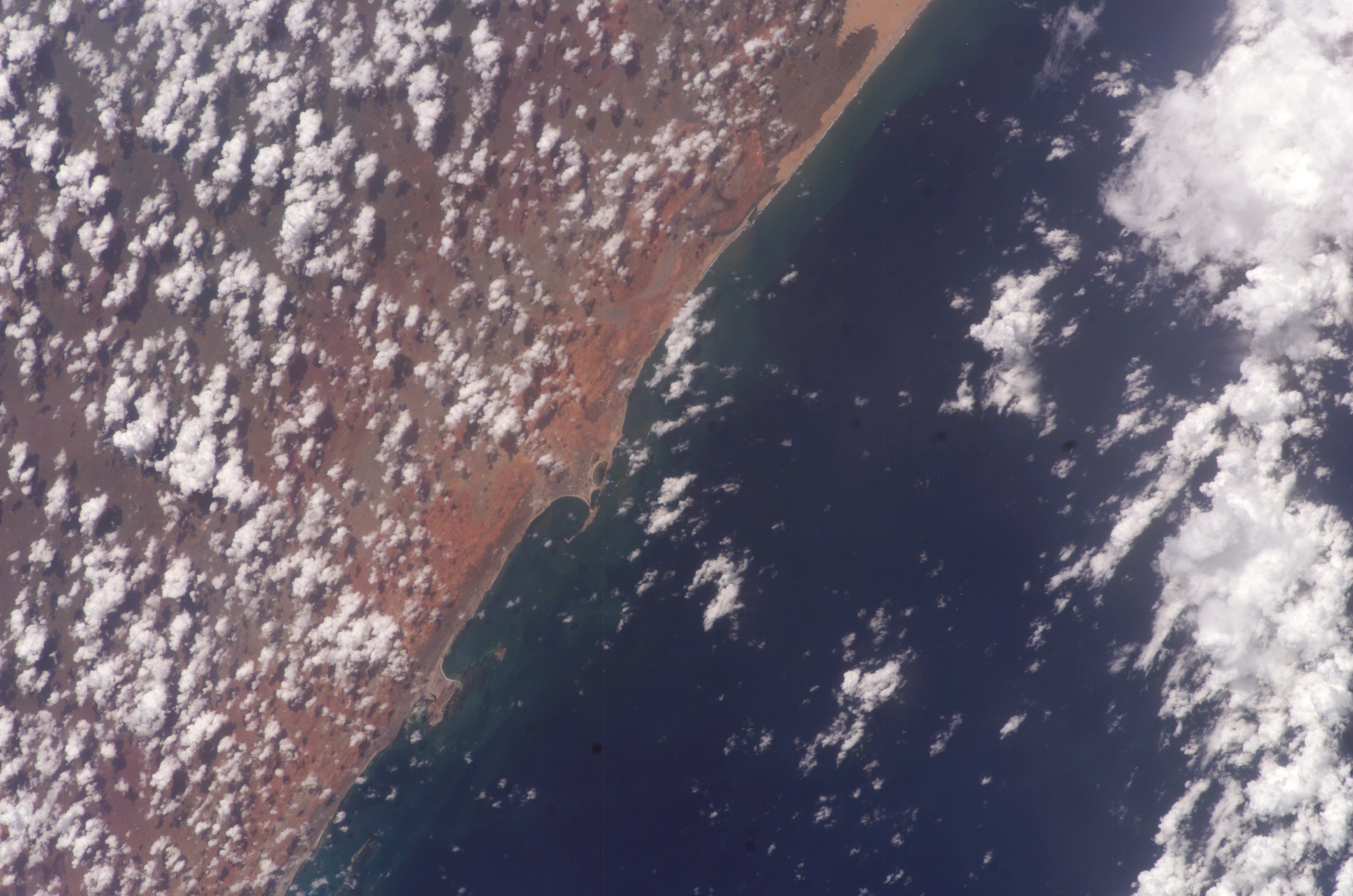 Satellite picture of Kismaayo and surrounding area, Somalia